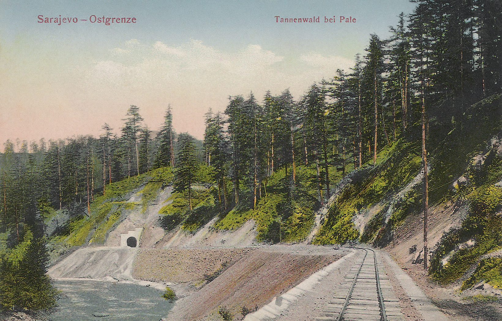 The western portal of the tunnel No. 10 west of Pale during construction of the railway line Sarajevo (- Vardište) - Uvac (1902 - 1906) at km 17.7